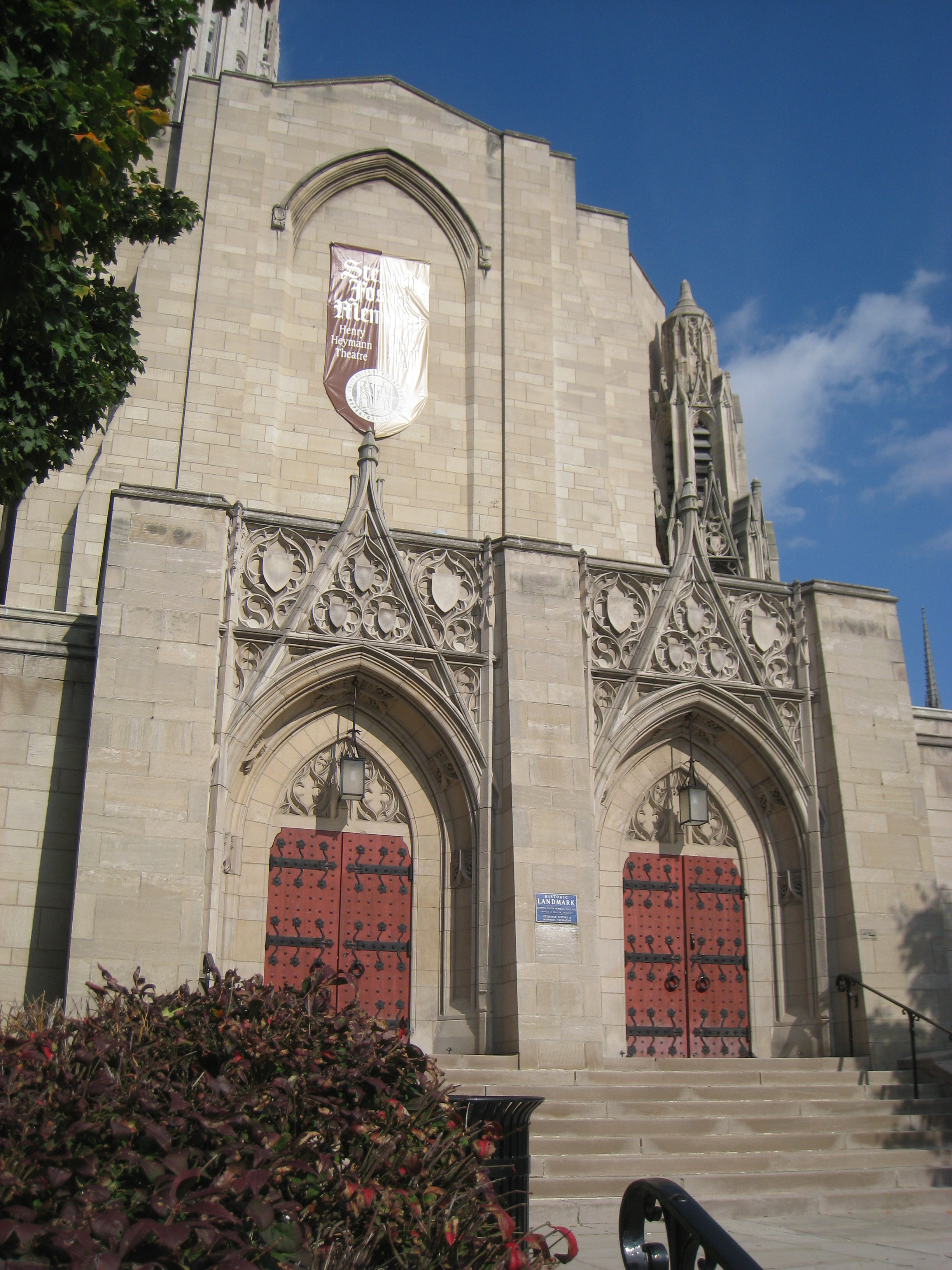 Stephen Foster Memorial, University of Pittsburgh, Pittsburgh, Pennsylvania, USA. Architect Charles Z. Klauder; built 1935-1937.